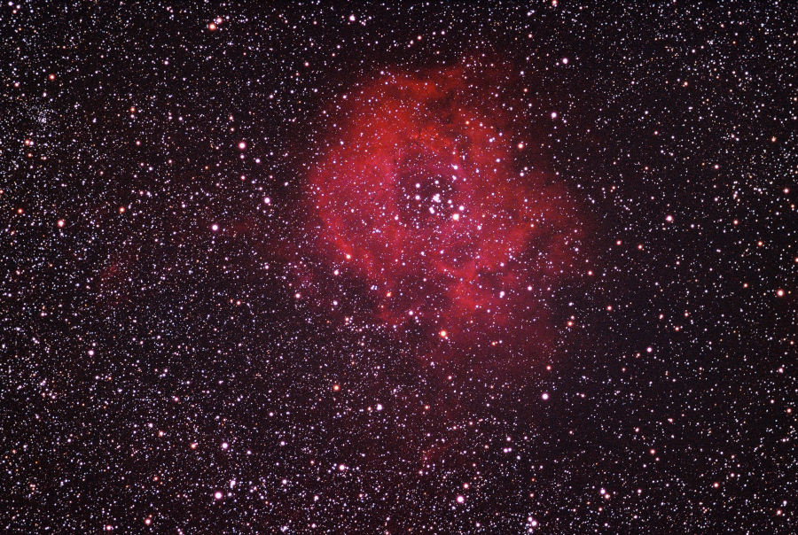 The Rosette Nebula (also known as NGC 2237) is a large, circular H II region located near one end of a giant molecular cloud in the Monoceros constellation. Photographed at La Palma, Roque de los Muchachos (Degollada de los Franceses). Photo taken the following equipement: Camera/Telecope: Pentax SDHF 500 6.7/500 on GP/DX, tracing ST4 at 600mm (Sonnar 4/300 with 2x tele converter) Exposure: 45 min Film: Kodak E200 35mm (Push to 600 ASA) Scanner: Scan service Processing: Removed vignetting, colour and contrast correction. additional remark: faintest object visible at 6.5 mag